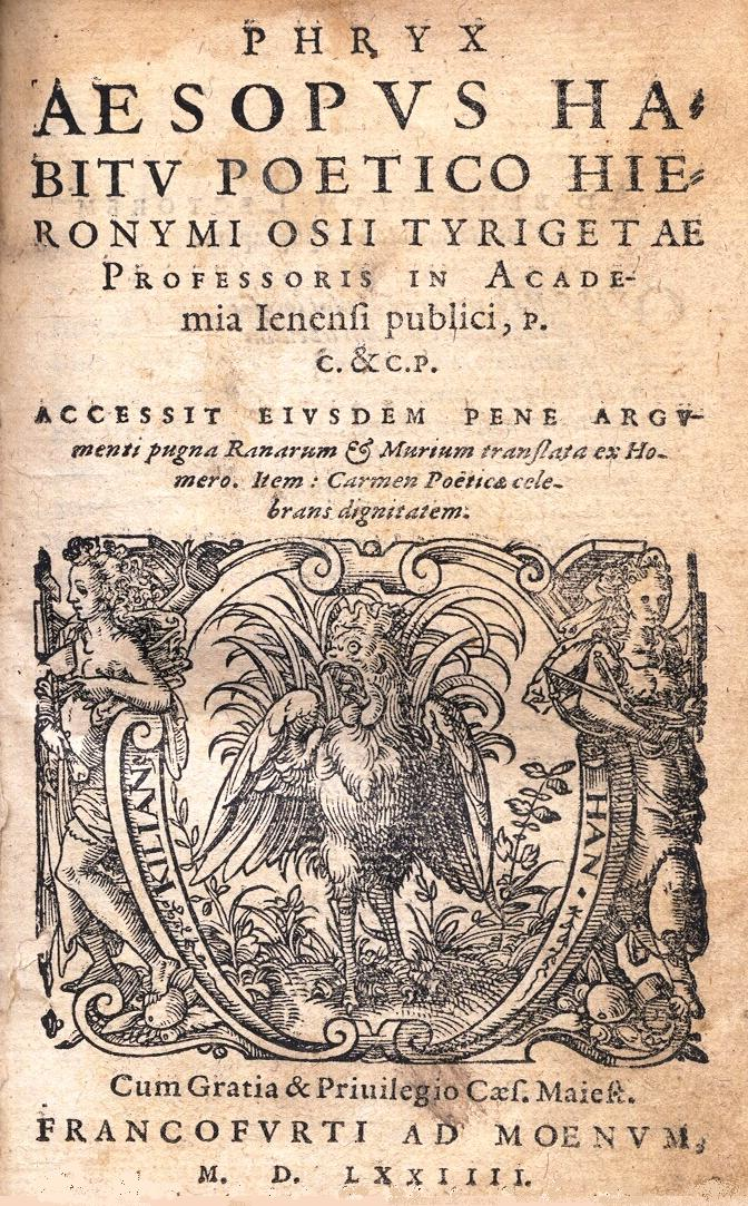 The title page of the collection of Aesop's Fables in Neo-Latin verse by Hieronymus Osius; this is the 1574 Frankfurt edition titled Phryx Aesopus Habitu Poetico.